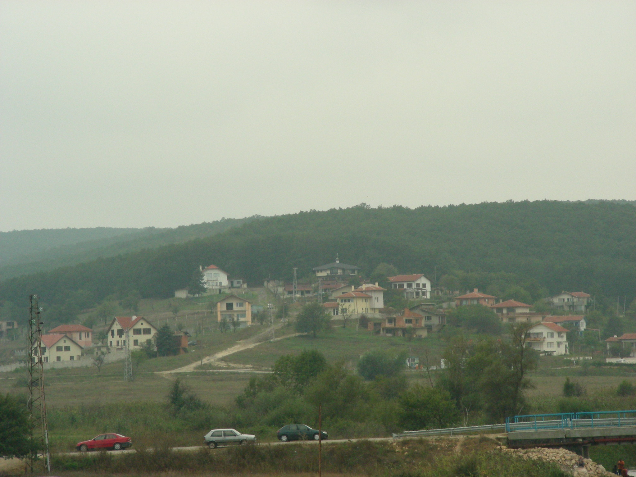 Shkorpilovtsi village